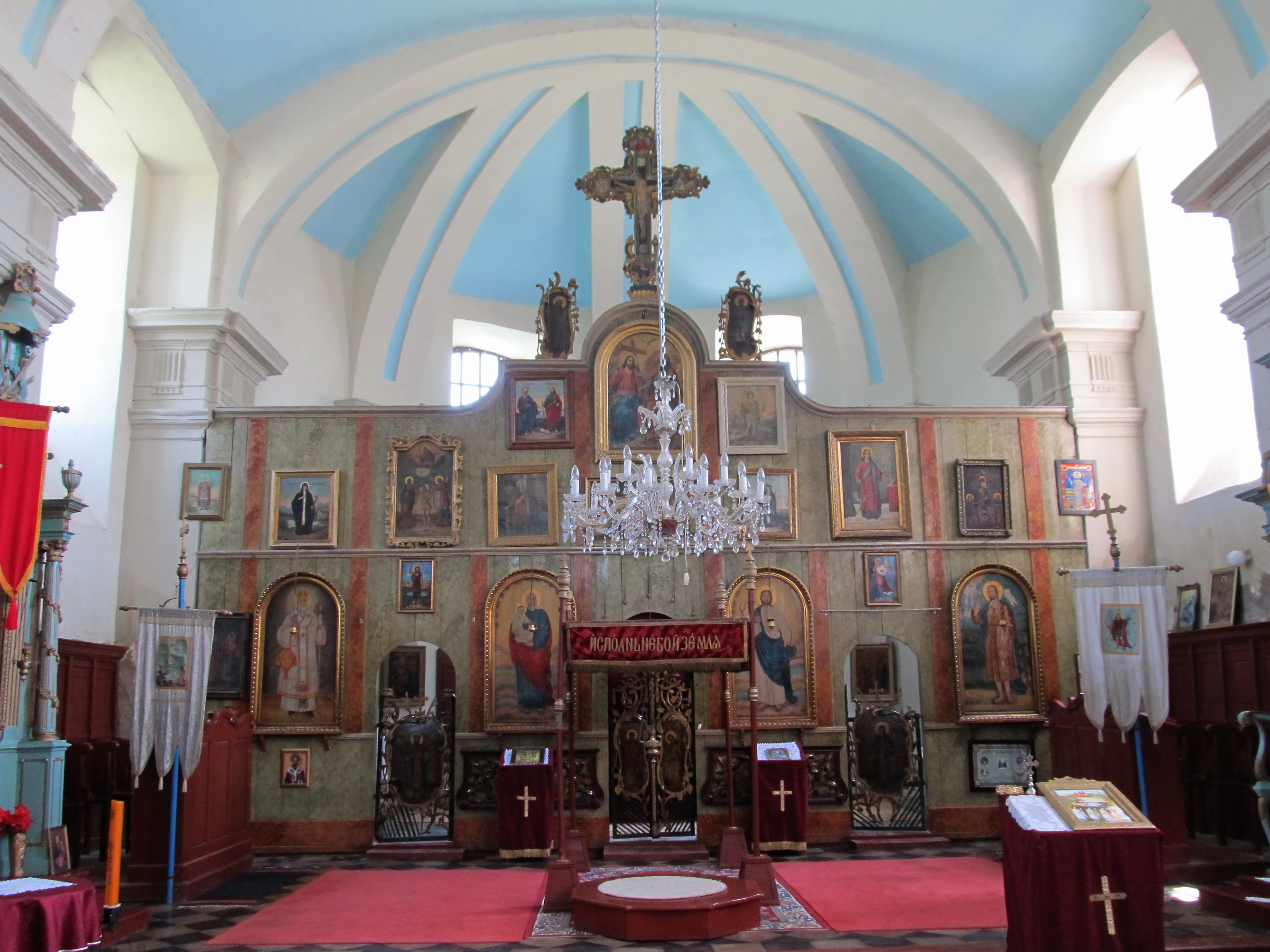 Serbian Orthodox church of Saint Nicholas in Neuzina - iconostasis